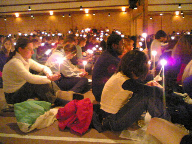 a typical lightmess in taizé